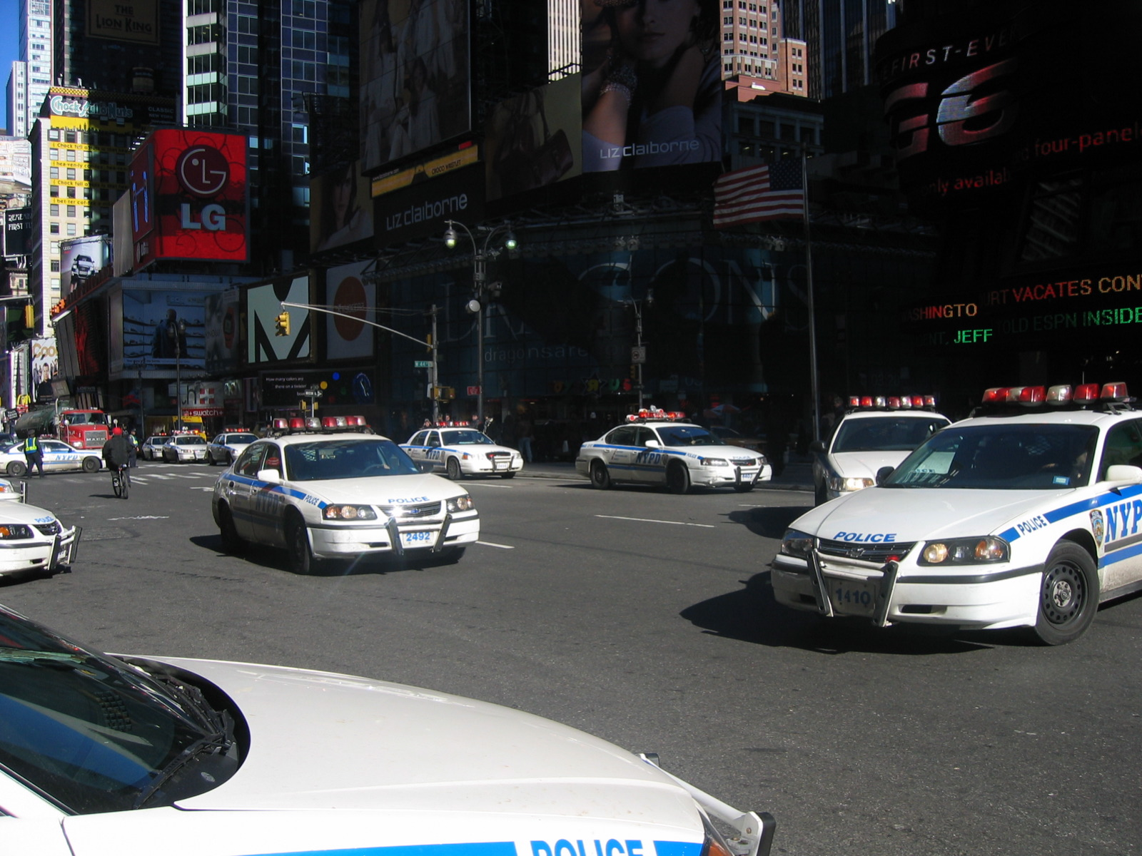 Police cars on Times Square, New York City, USA